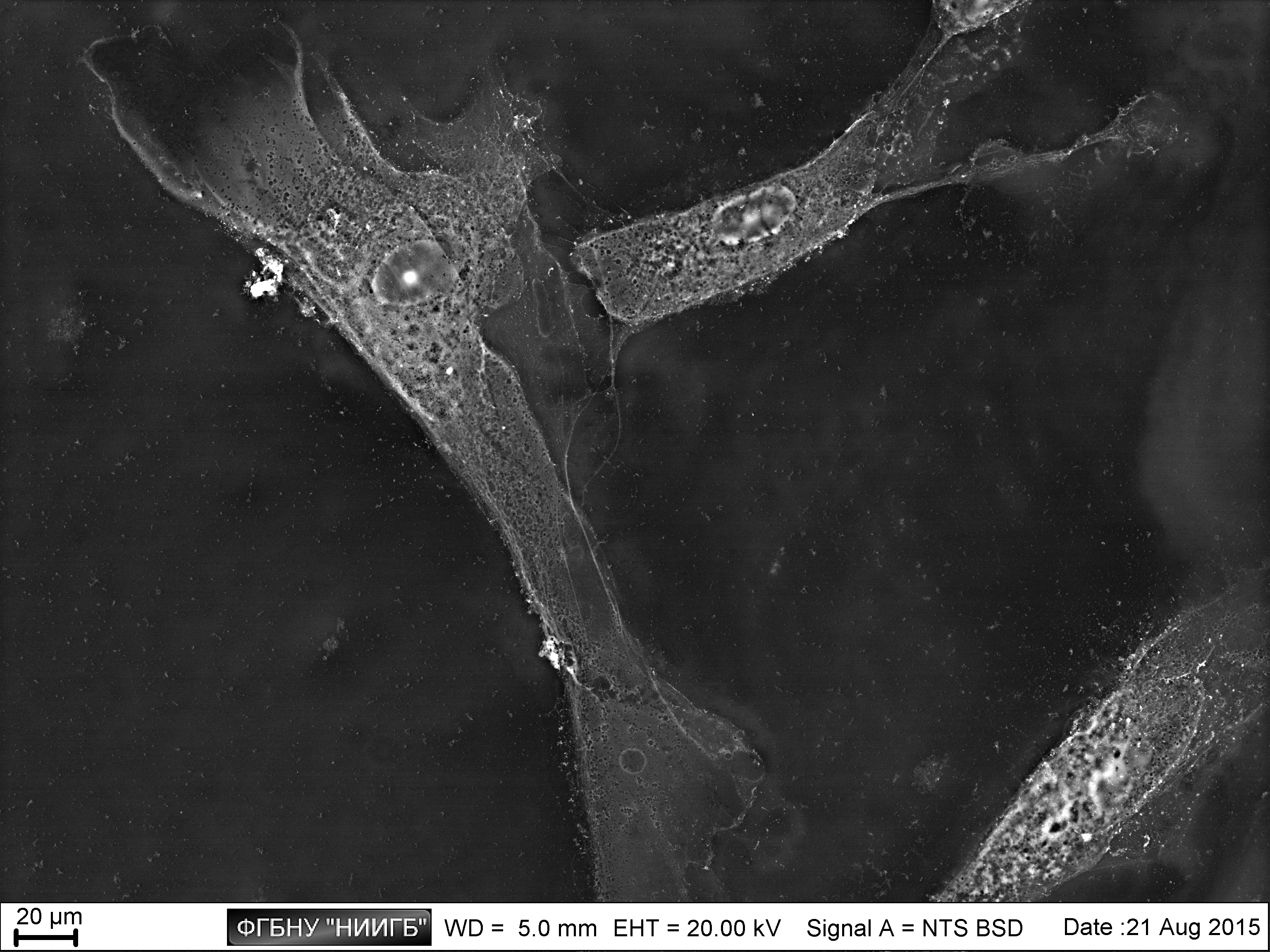 Limbal stem cells on tissue culture plastic. Scanning electron microscopy with BSE-imaging after the lanthanoid staining (visualization of inner structure of cells in density of backscattered electrons). A new technique for environmental SEM (ESEM) of hydrated cells. Laboratory of Fundamental Research at the Research Institute of Eye Diseases, Moscow.